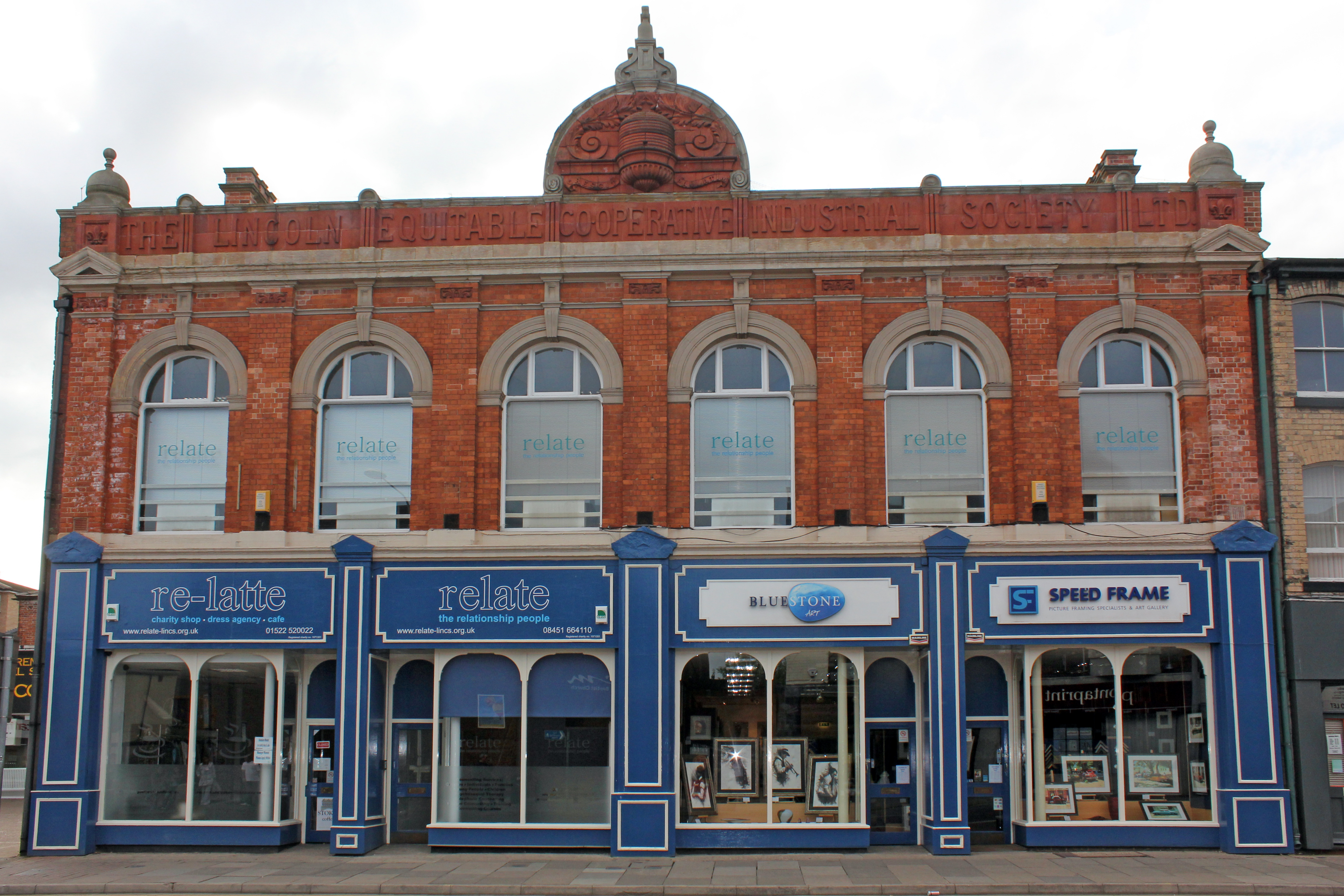 Old Co-operative building High Street